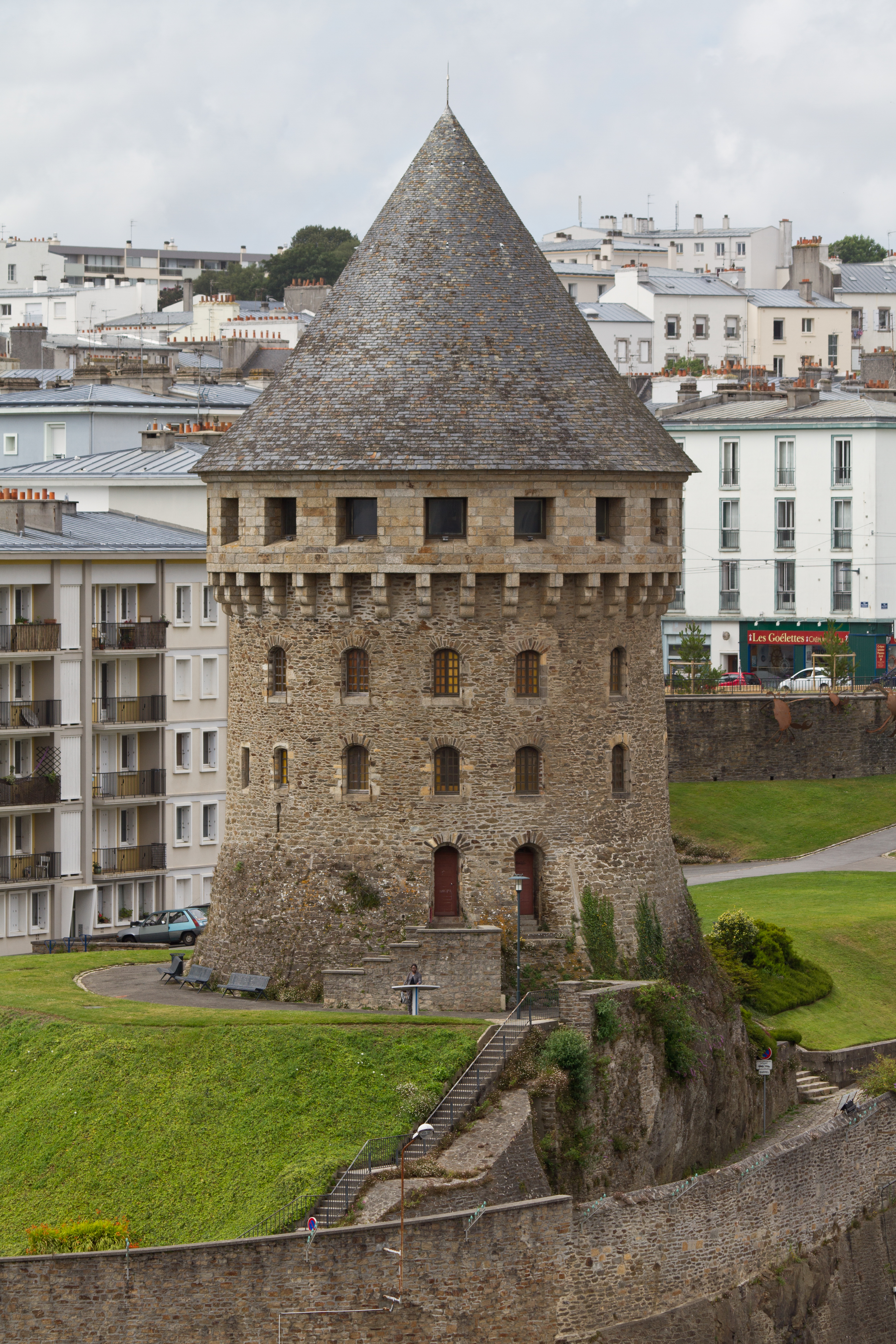 Tour Tanguy in Brest.